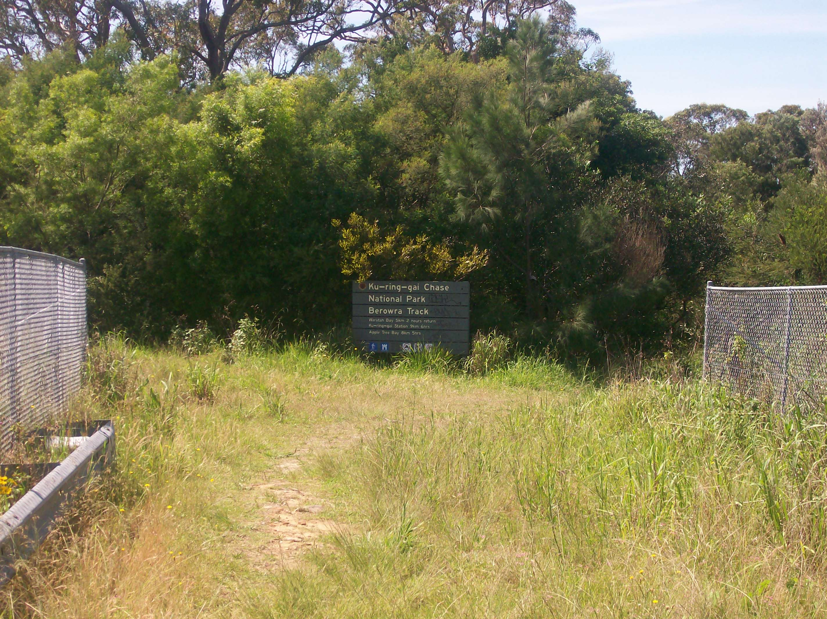 Ku-ring-gai Chase National Park entrance Berowra